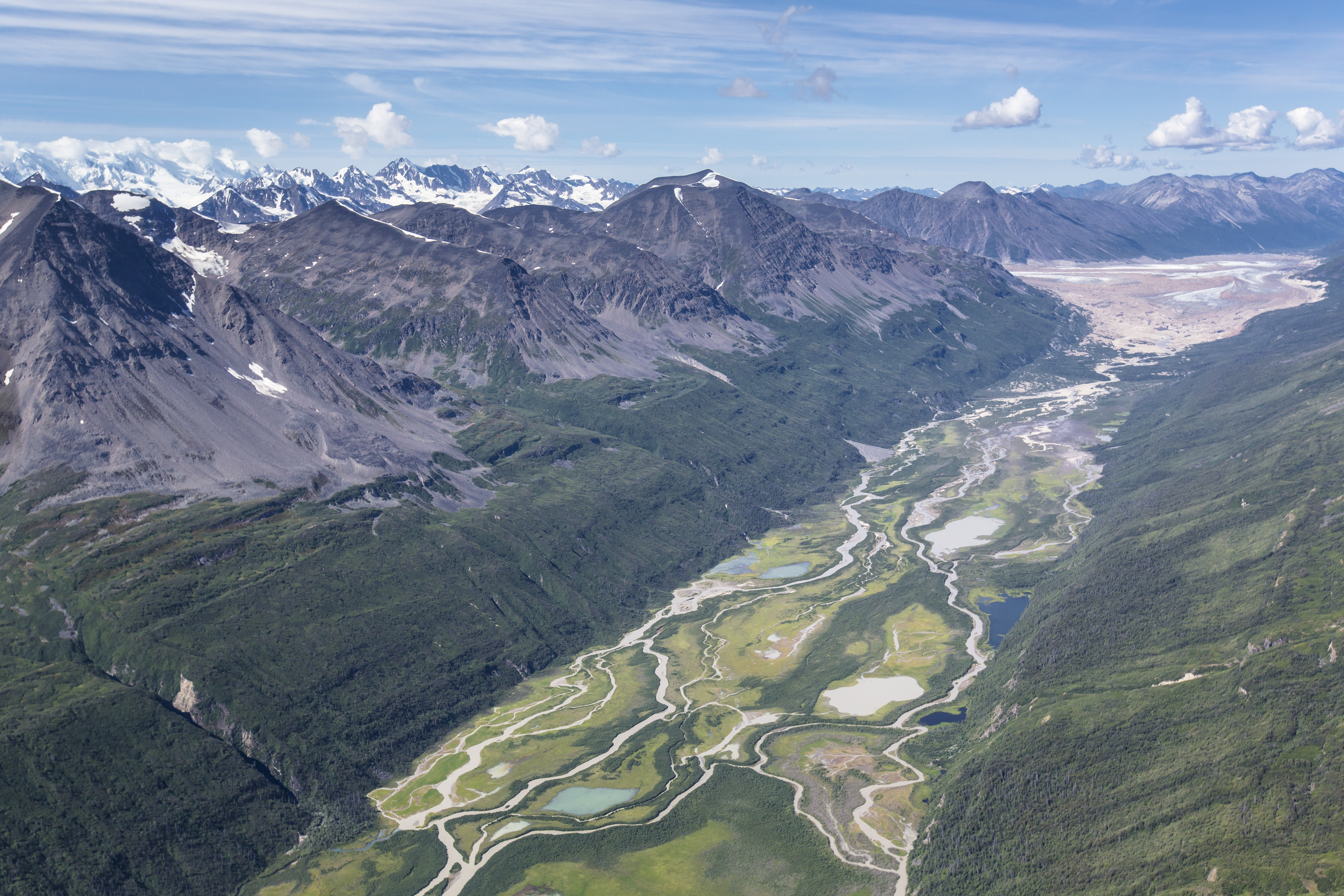 NPS / Jacob W. Frank Flight paths